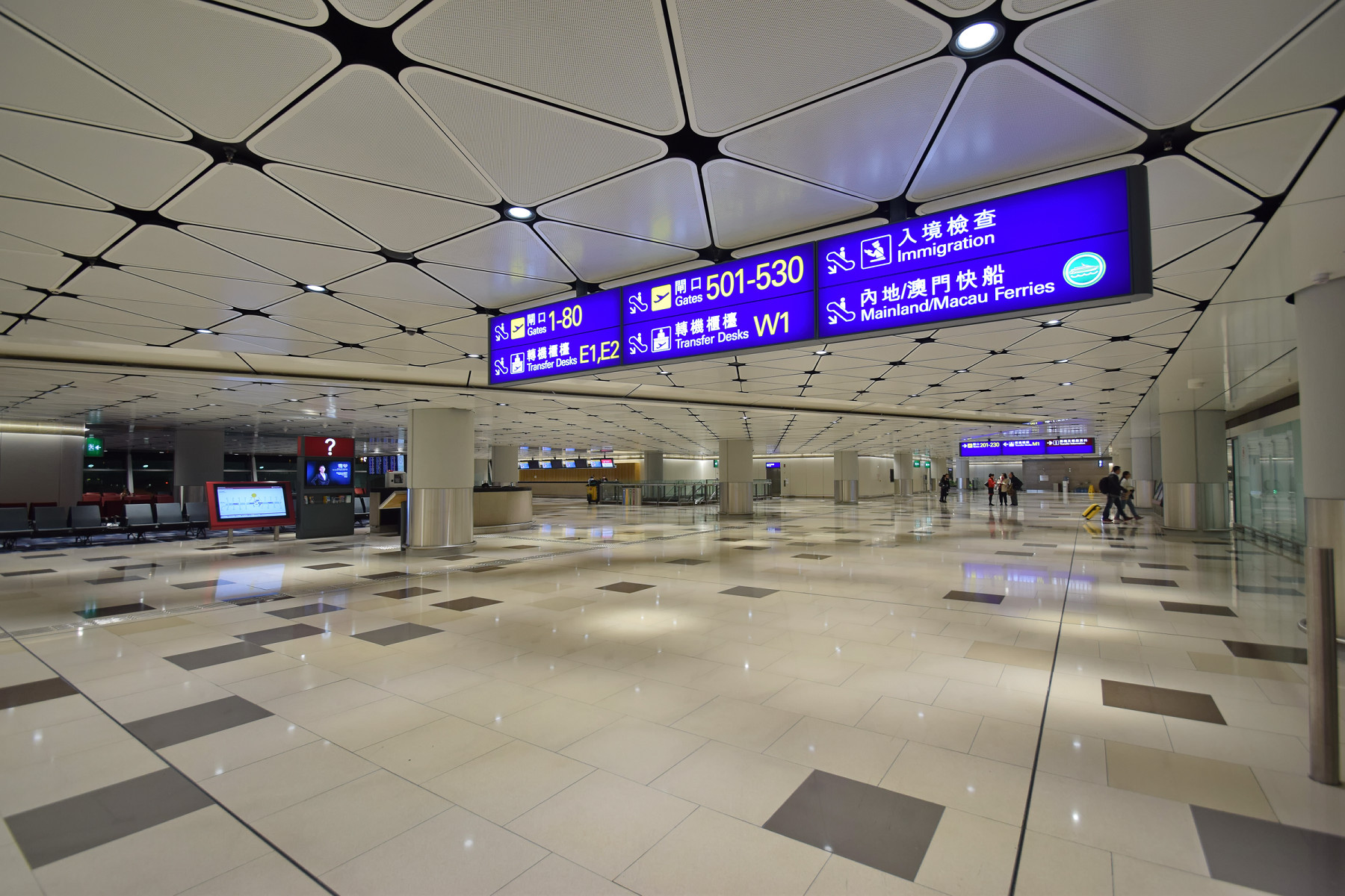 Transfer Desks M1, Midfield Concourse, Hong Kong International Airport